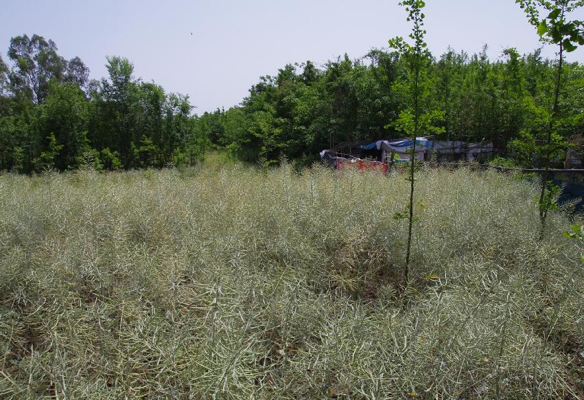 Ming Shu King's Tombs -- King Cheng's tomb at Xianghuasi